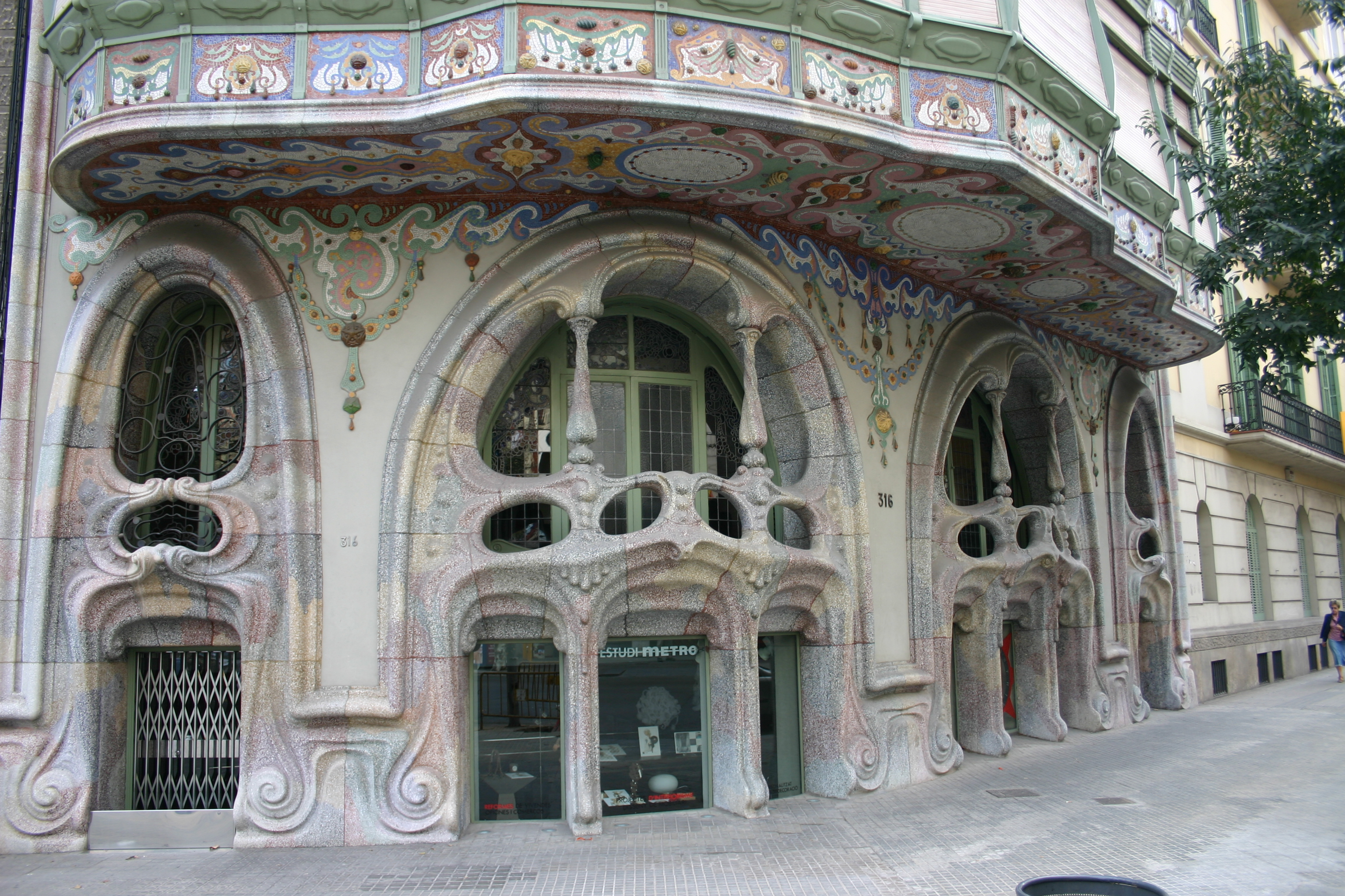 Casa Comalat Av. Diagonal, 442 i Còrsega, 316 Photography Author: User:Yearofthedragon Note: Architect:Salvador Valeri i Pupurull City:Barcelona